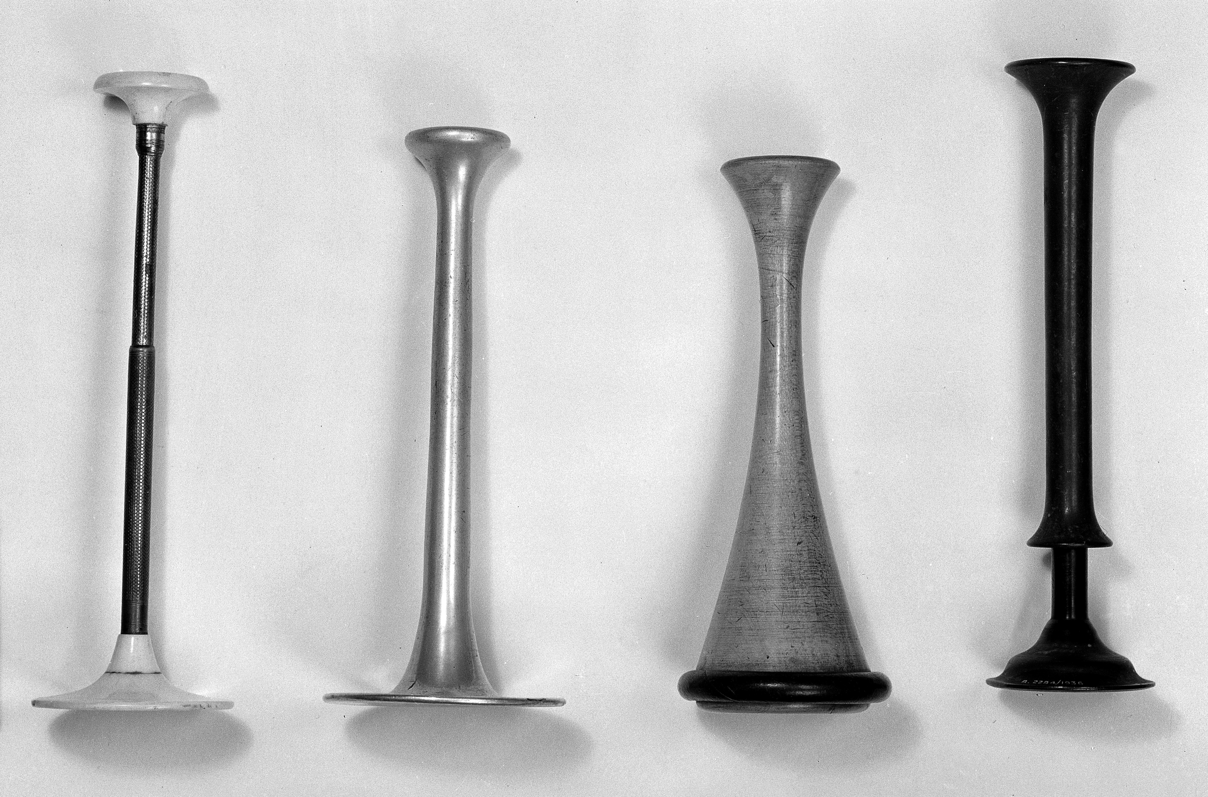 4 Stethoscope. A- telescopic, see Maw 1882. B- made of aluminium, like Hughe's but no record of material. C- unusual design, said to be 1845-1855. D- Italian, but like Williams. Wellcome Images